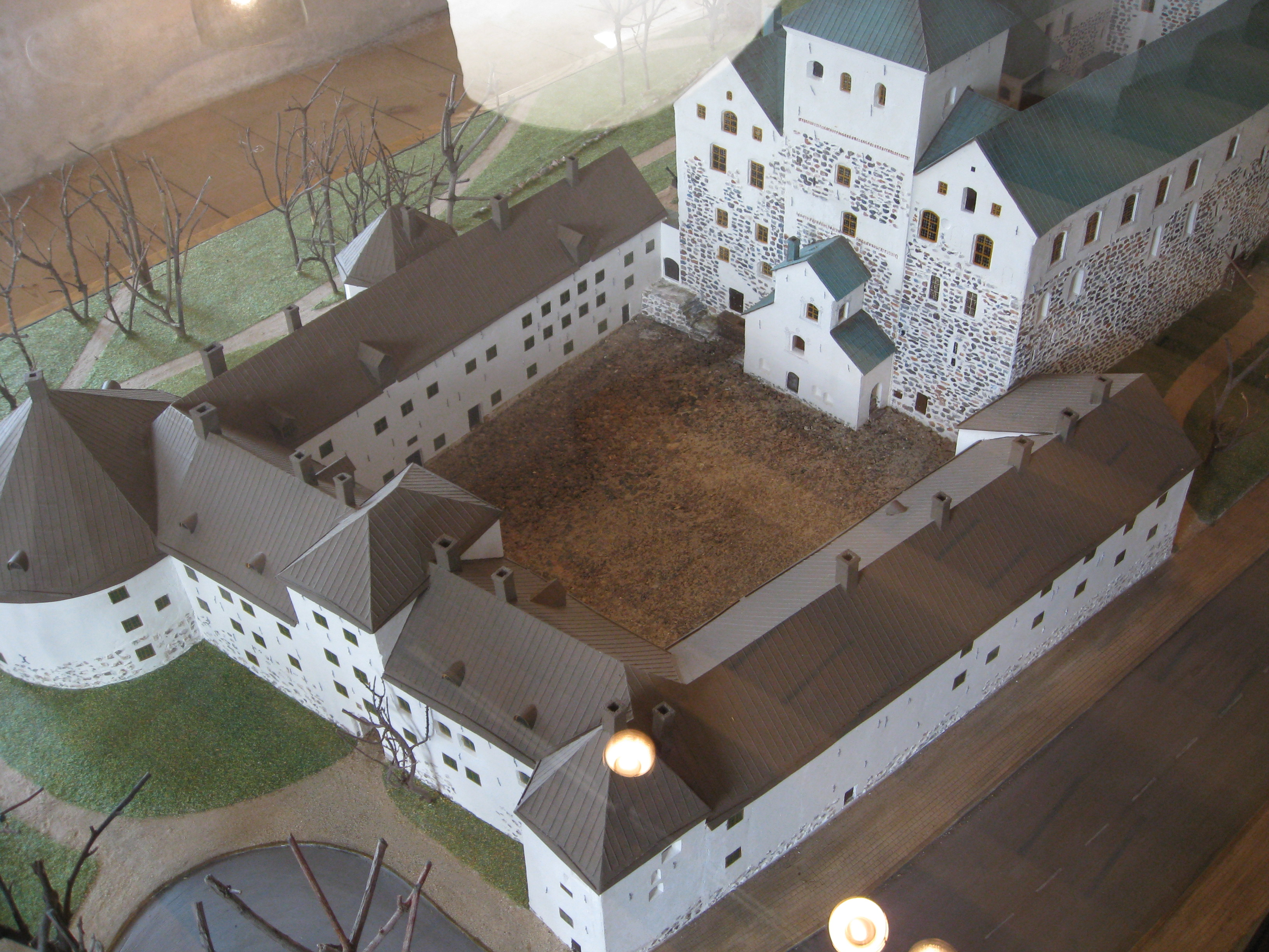 Model of Castle in Turku